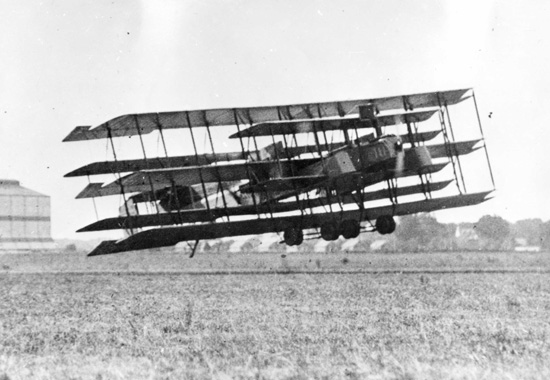 Johns Multiplane flying circa 1919. Other information The San Diego Air and Space Museum is unaware of any current copyright restrictions on the work, either because the term of copyright may have expired without being renewed or because no evidence has been found that copyright restrictions apply.